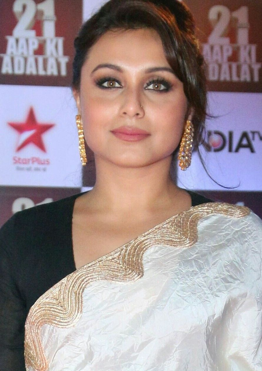 Rani Mukerji at the 21 years of 'Aap Ki Adalat' celebration